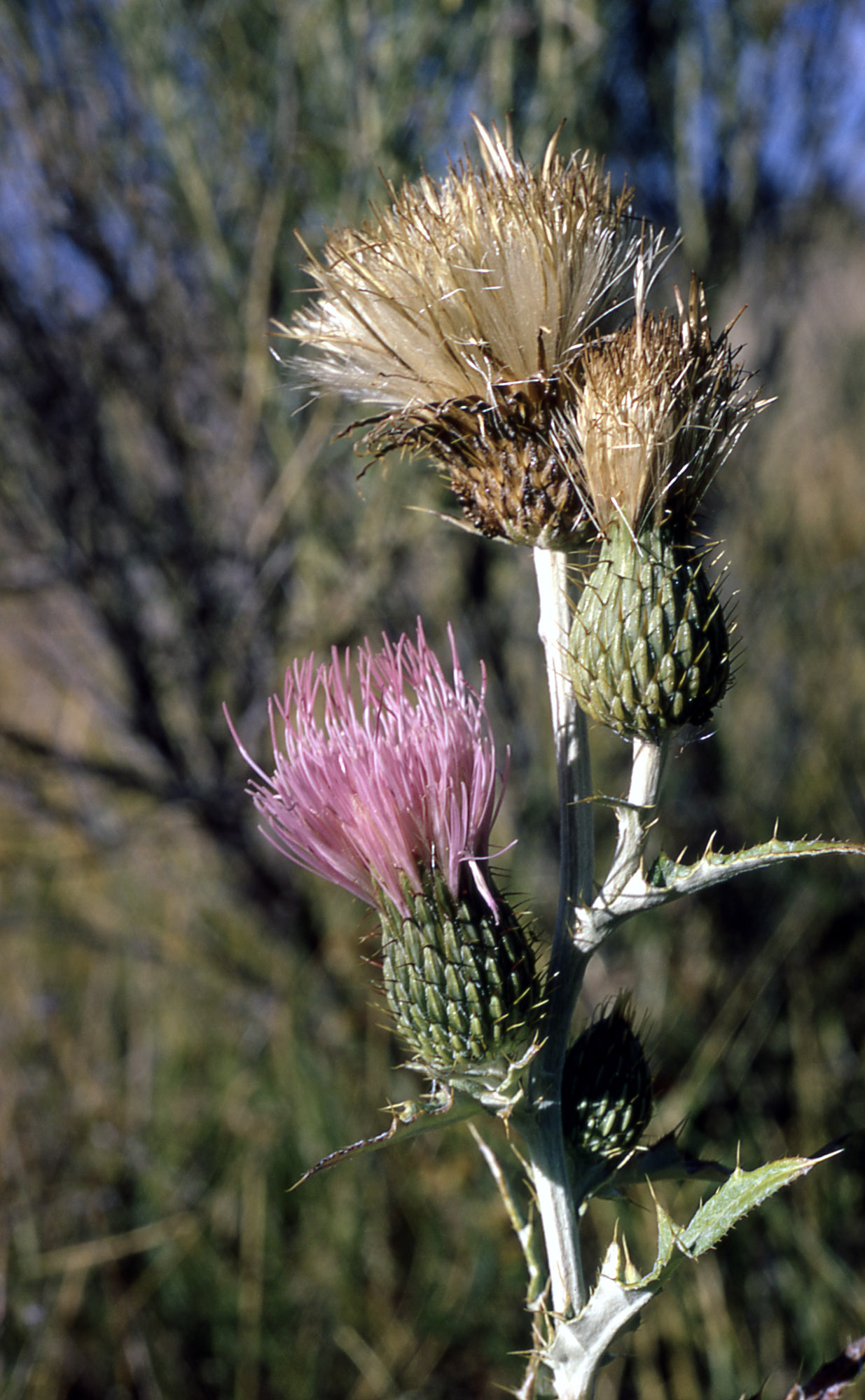 Cirsium undulatum — Wavyleaf thistle. Endemic to Colorado.